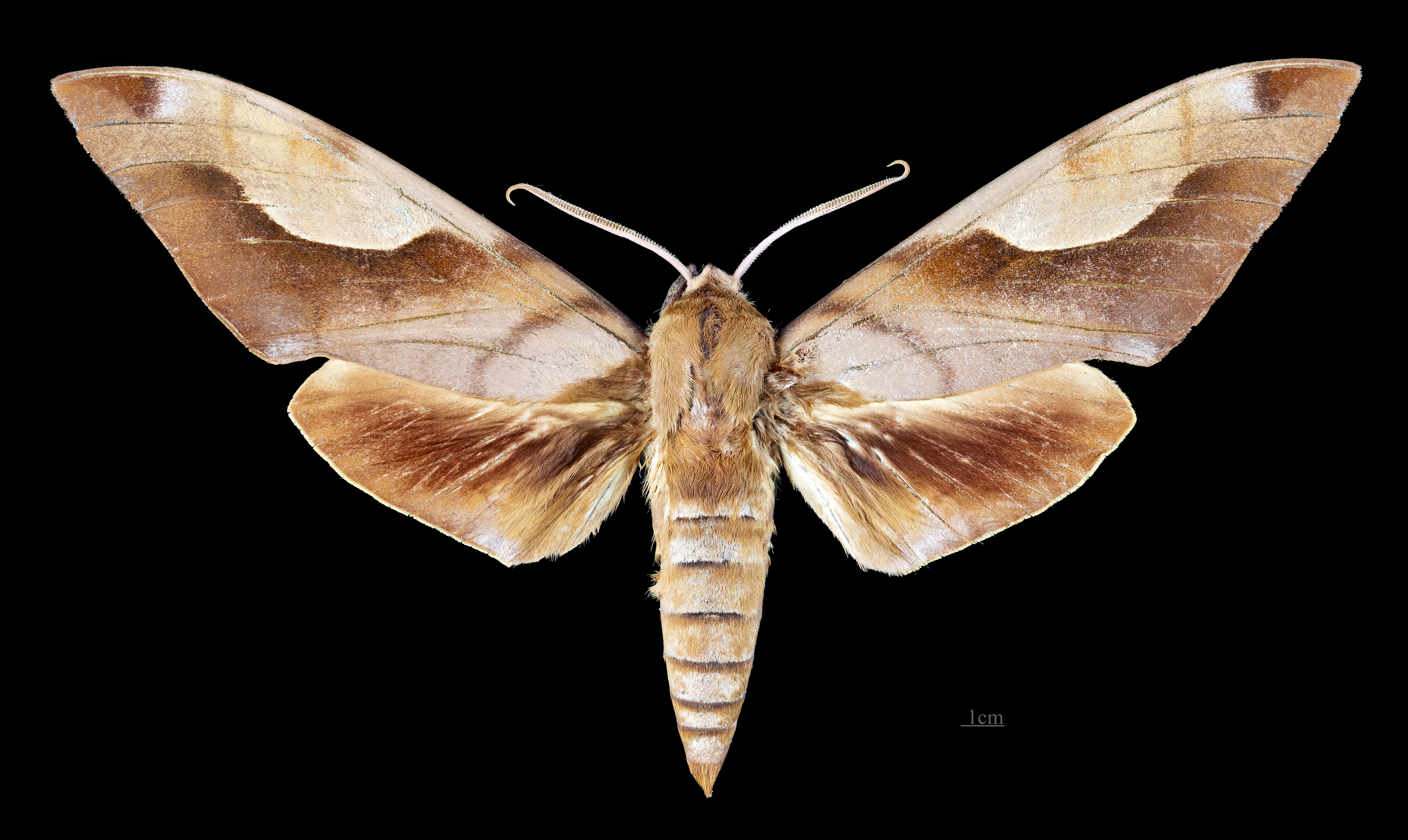 Clanis titan - Dorsal side Collection of the Mathematician Laurent Schwartz